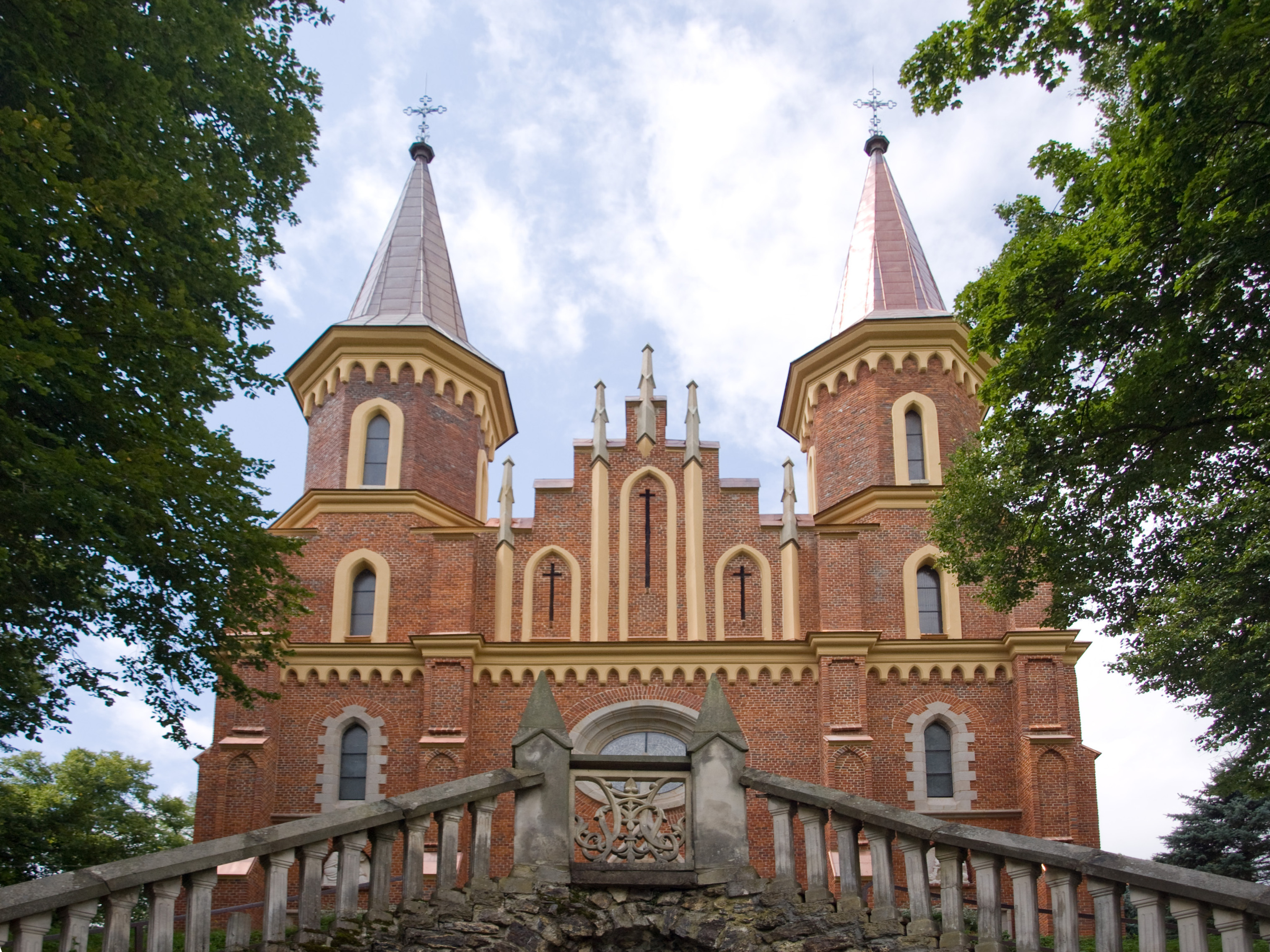 Church, Dydnia, Subcarpathian Voivodeship